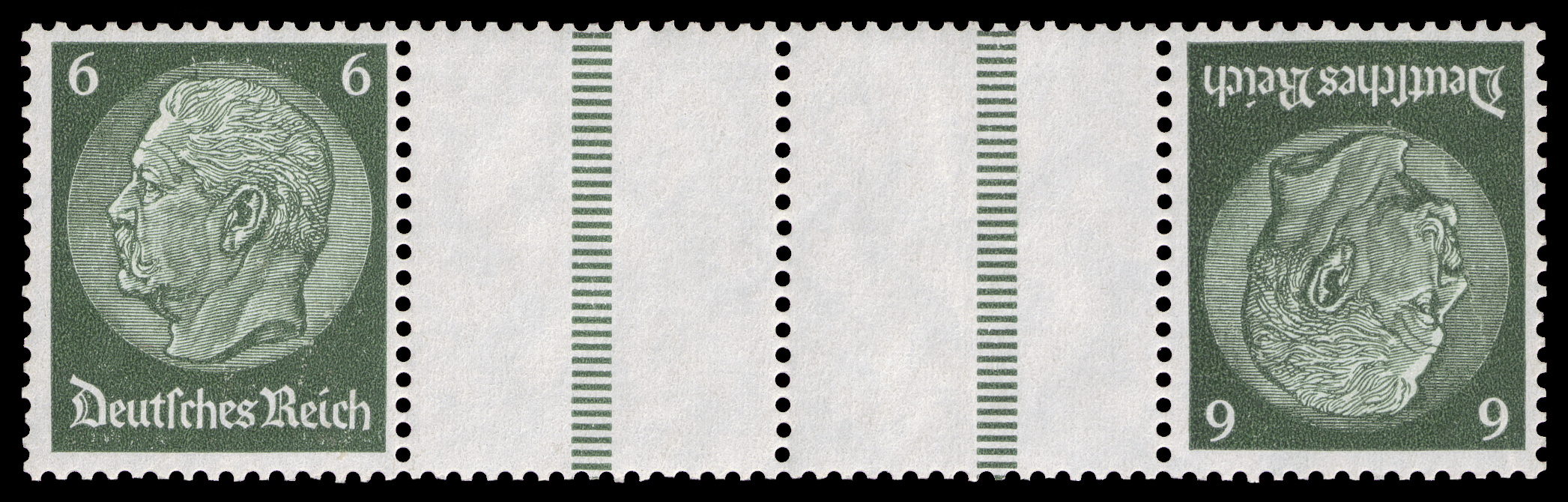 series of stamps of the German Empire, Paul von Hindenburg (1847-1934) Graphics by K. Goetz Ausgabepreis: 2x 6 Pfennig First Day of Issue / Erstausgabetag: 1934 Michel-Katalog-Nr: KZ22 (2x 516) (Deutsches Reich)